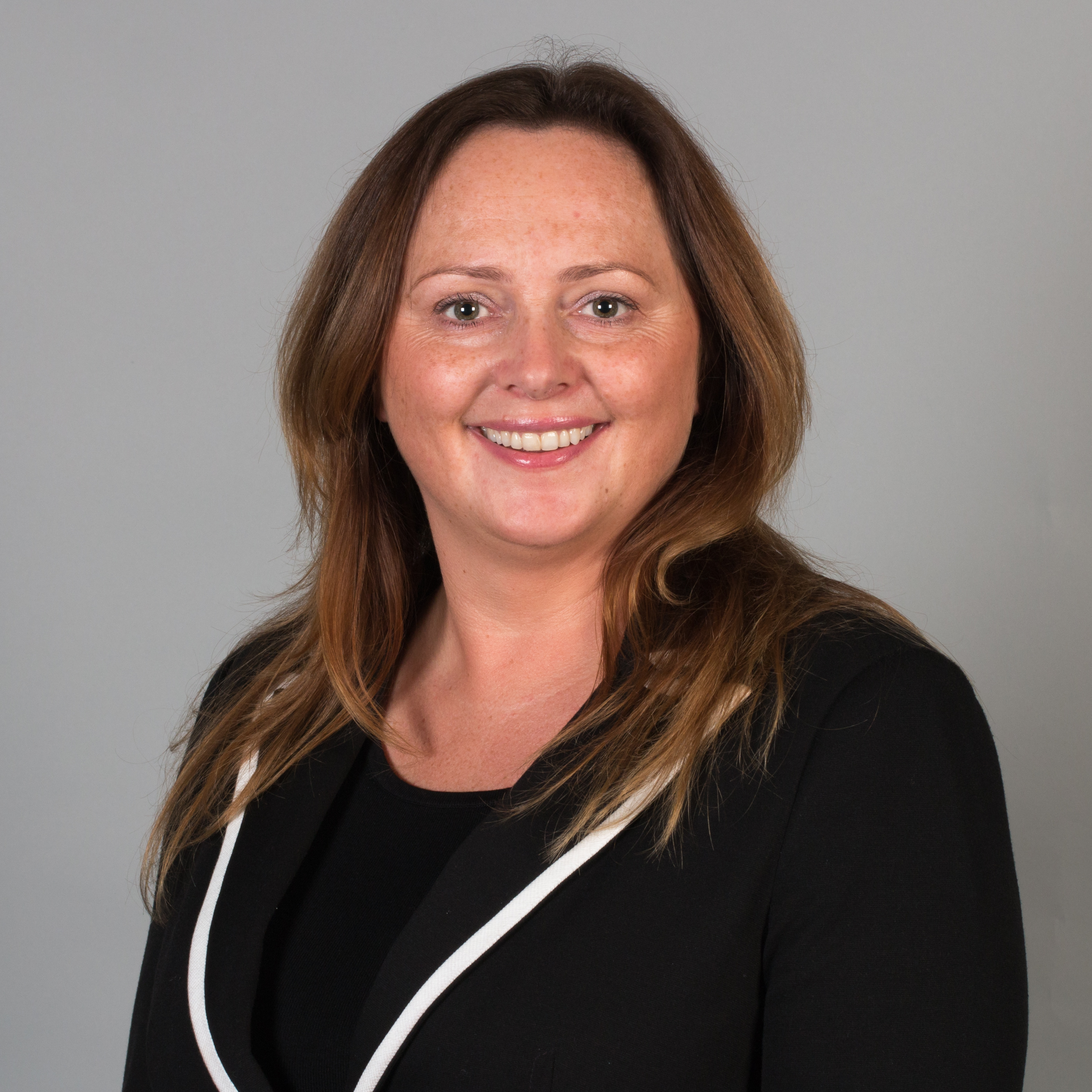 Joanna Katarzyna Skrzydlewska, Member of the European Parliament